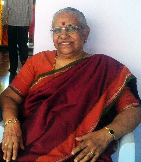 Kamala Hampana is one of the biggest writers in Kannada. She worked immensely as a scholar, a professor, and a follower of ancient Archaic works. She has undertaken serious study and research in all genres of Kannada literature and has made some of the most serious and self-serving ideas of all genres.